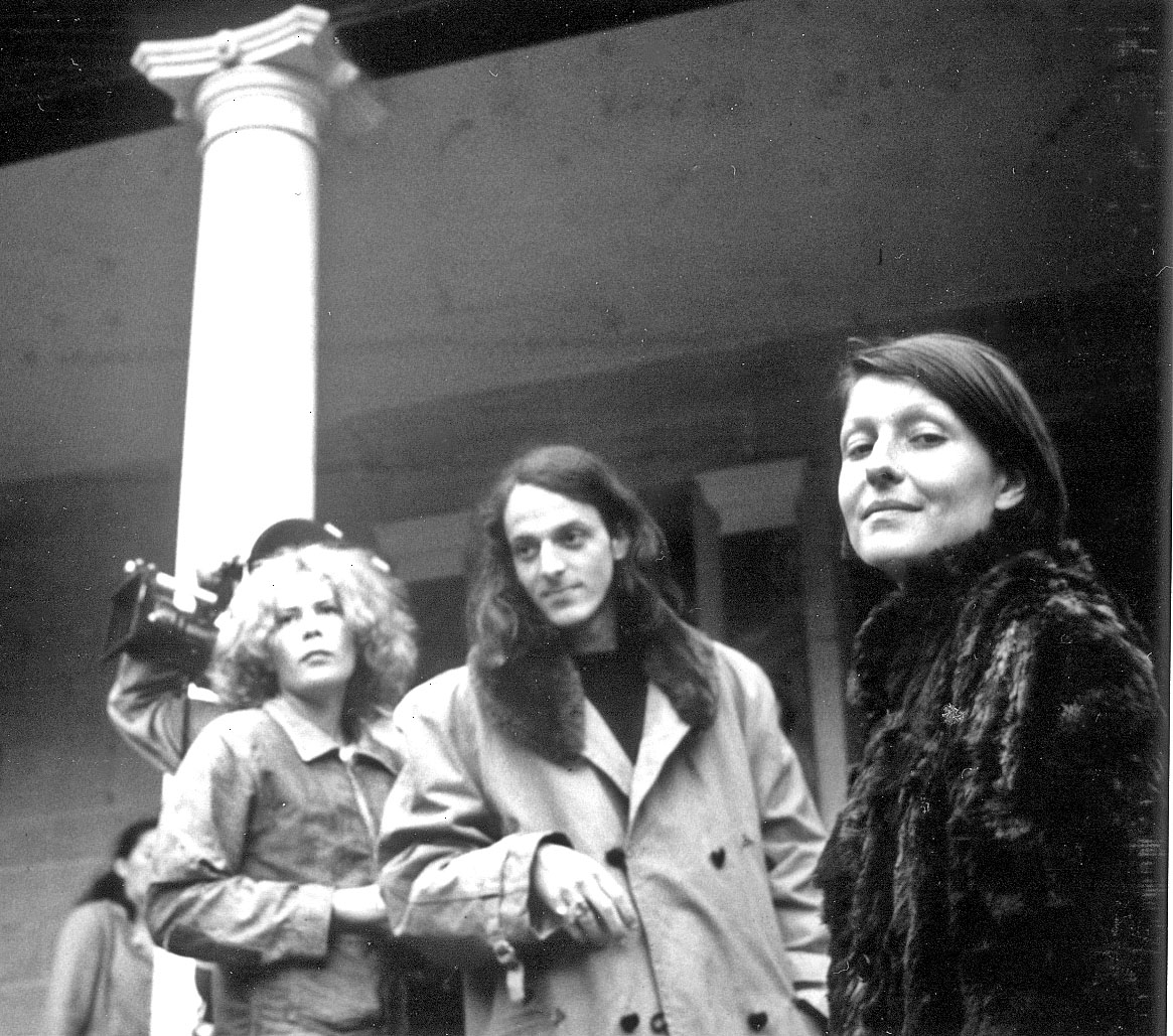 Reto Savoldelli in 1971 SdF